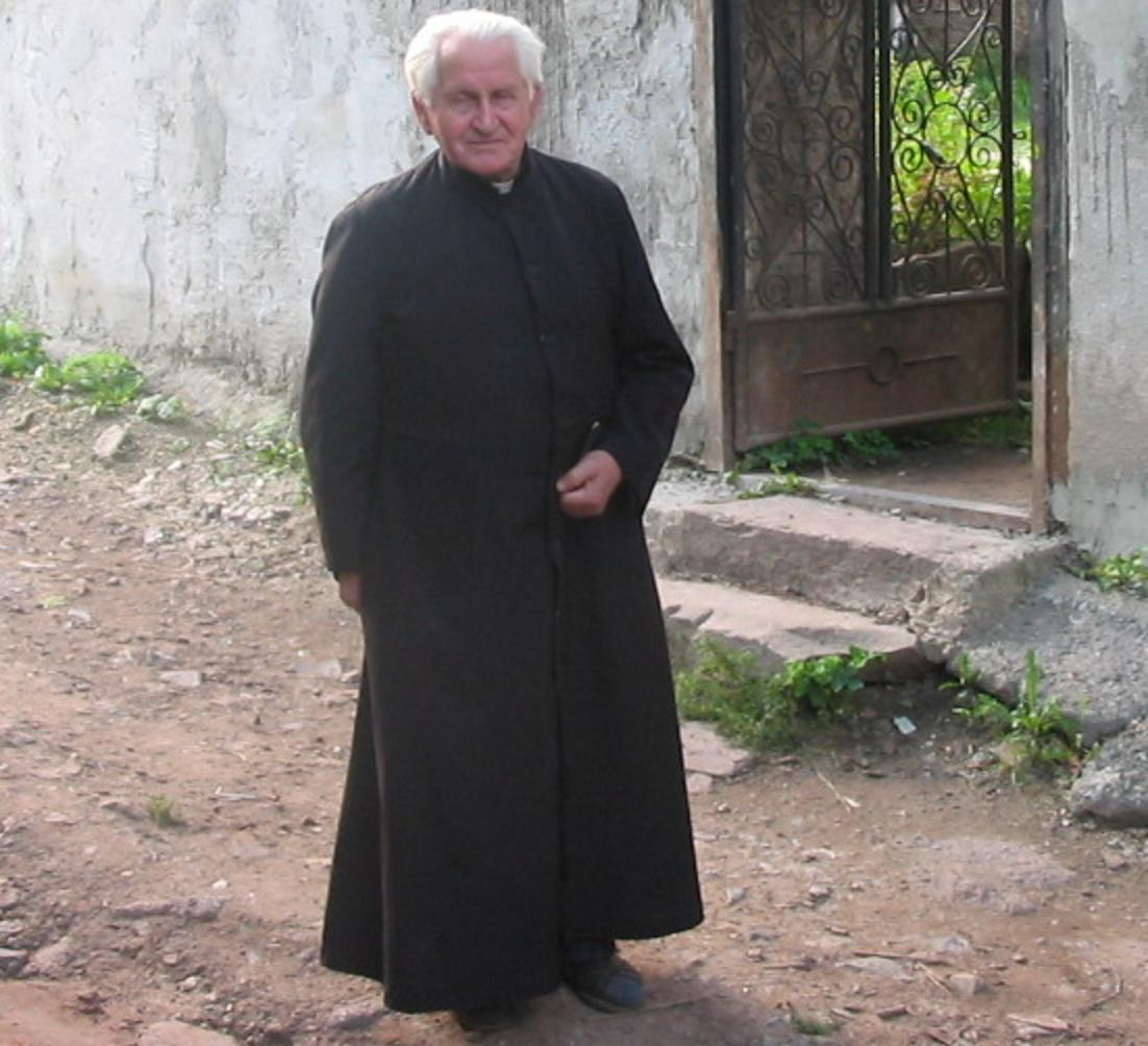 pr. Ludwik Rutyna, Priest of the Church of Assumption of Mary in Buchach, Ternopil Oblast, Ukraine